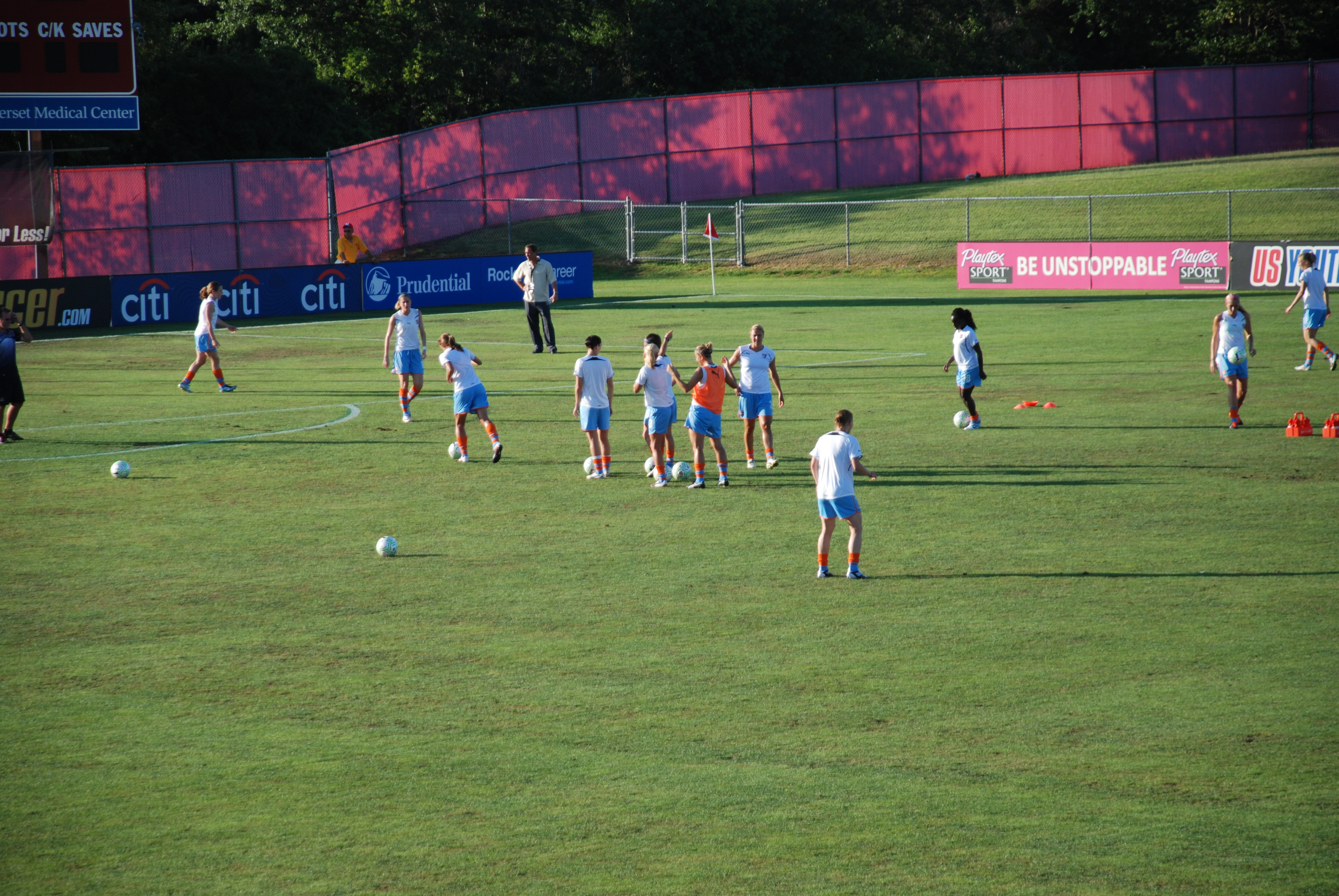 Sky Blue FC players warm-up before the game